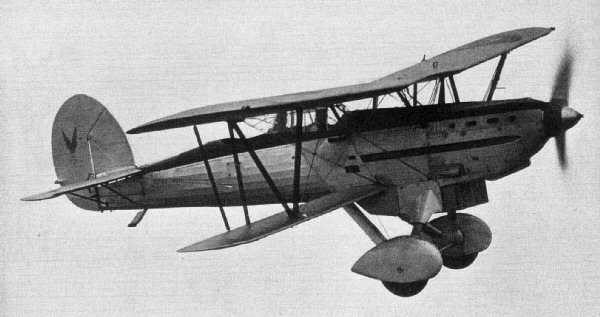 Fairey Fox bomber of the Belgian Air Force. Photograph published in: Aircraft of the Fighting Powers Vol I Ed: H J Cooper, O G Thetford and D A. Russell Harborough Publishing Co, Leicester, England 1940. Photographer not identified, so UK Copyright contended to have lapsed 50 years after publication. Picture prepared for Wikipedia by Keith Edkins in April 2004.